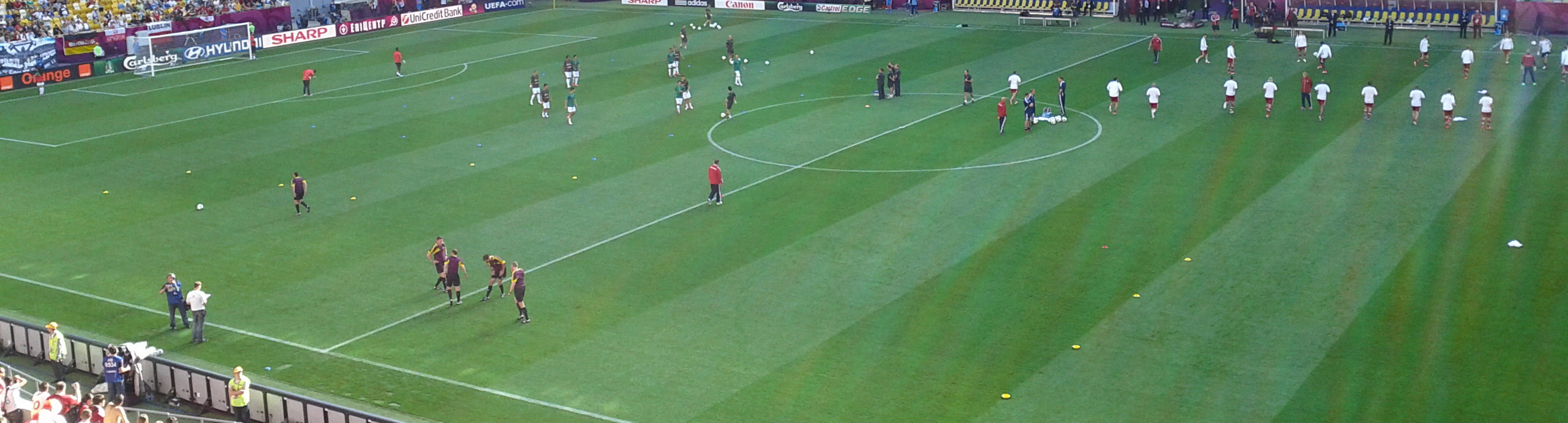 Warm-up at Arena Lviv before UEFA Euro 2012 match between Denmark and Portugal.